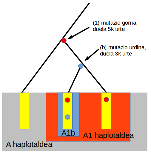 Basque explanation for haplogroups based on File:Molecular_lineage.png by User:Wobble